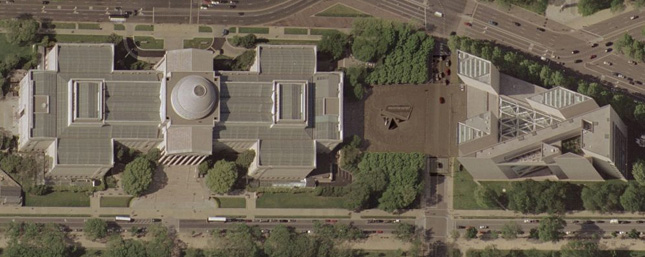 USGS satellite image of both National Gallery of Art buildings, Washington, DC.